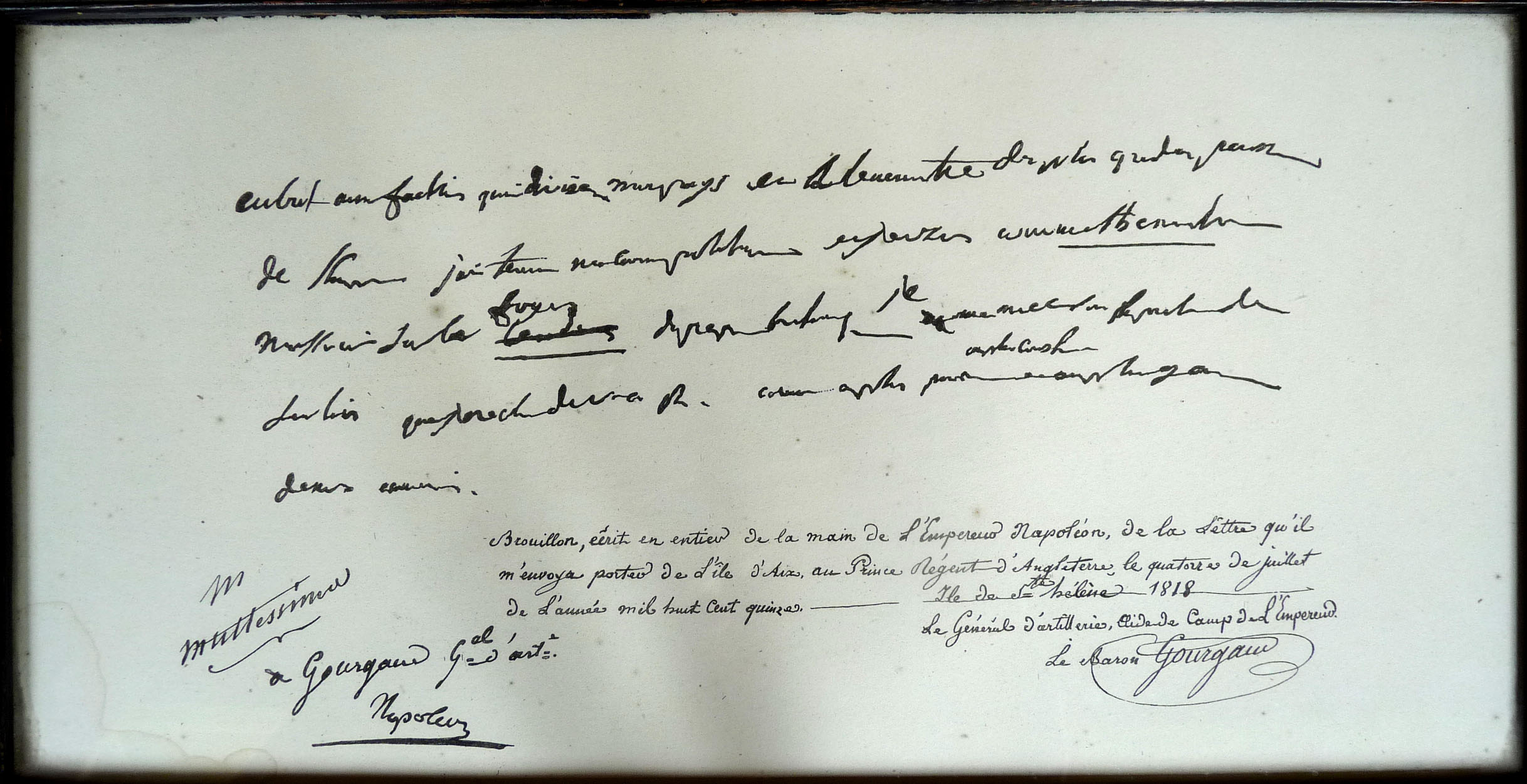 Facsimile of the draft of the letter of surrender to the Prince Regent by Napoléon (Musée napoléonien (Ile d'Aix, Charente-Maritime)